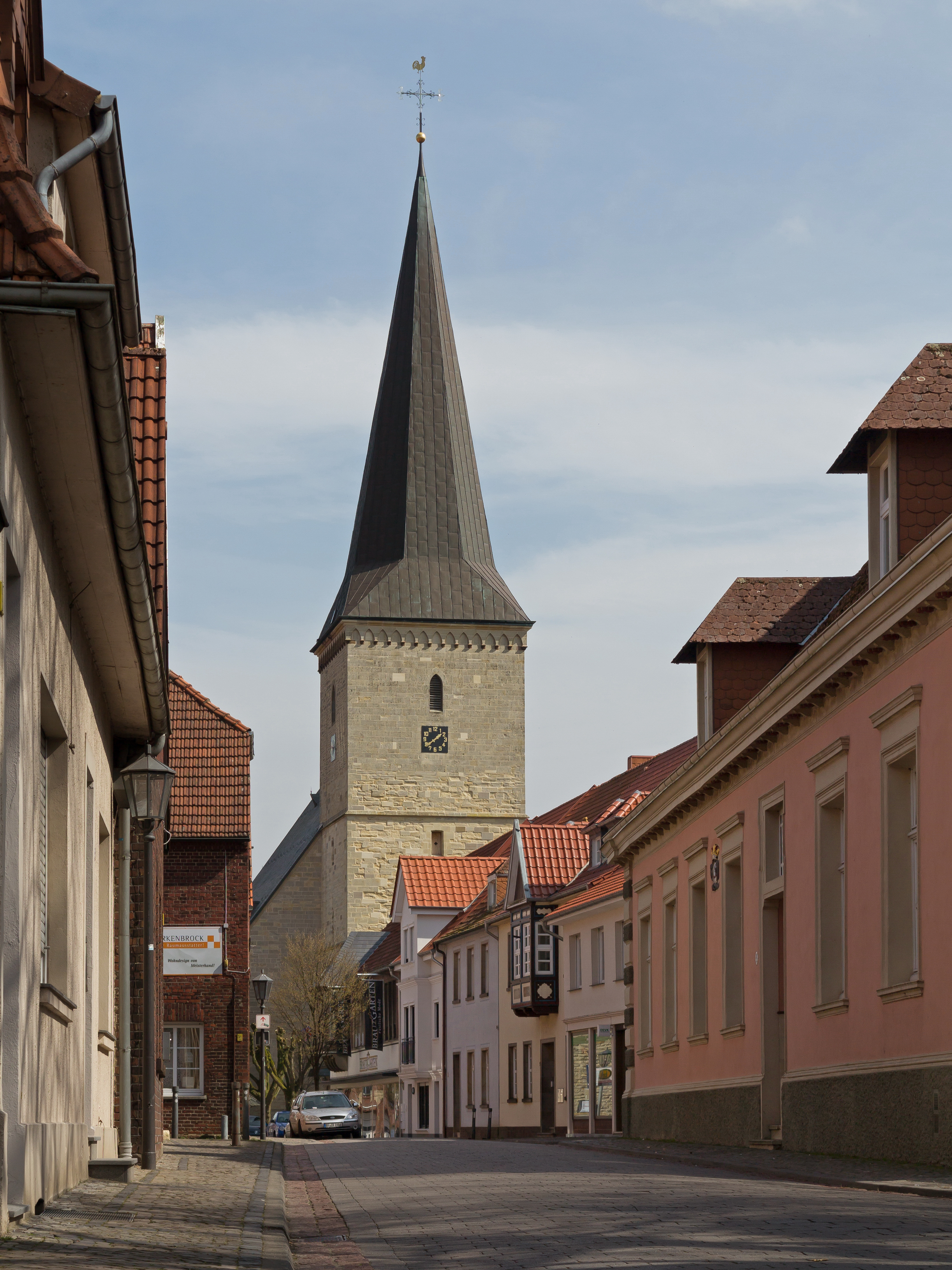 Horstmar, streetview of Saint Gertrude ChurchThis is a photograph of an architectural monument., no. A-26